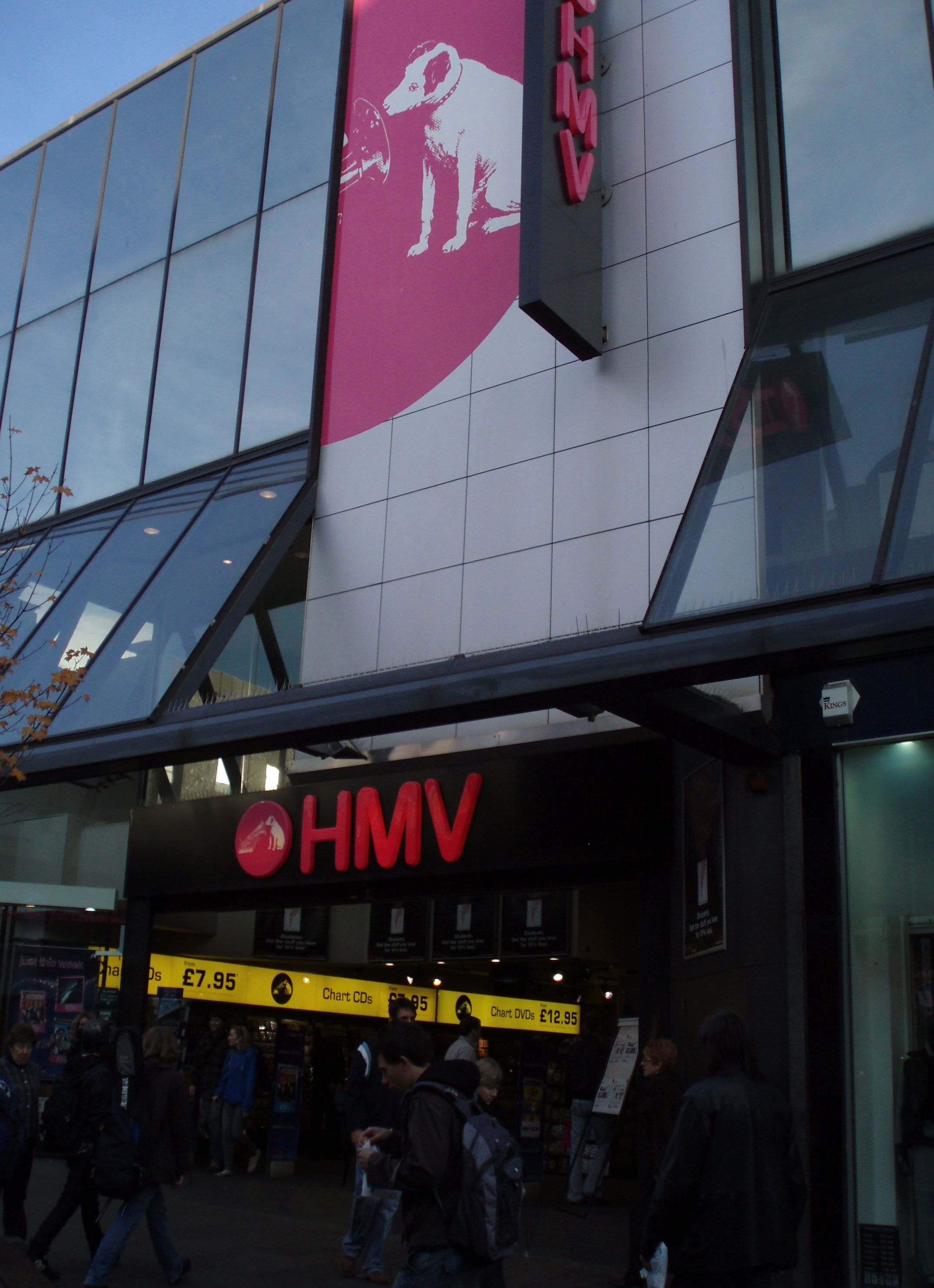 The HMV music store on Northumberland Street, Newcastle upon Tyne, England